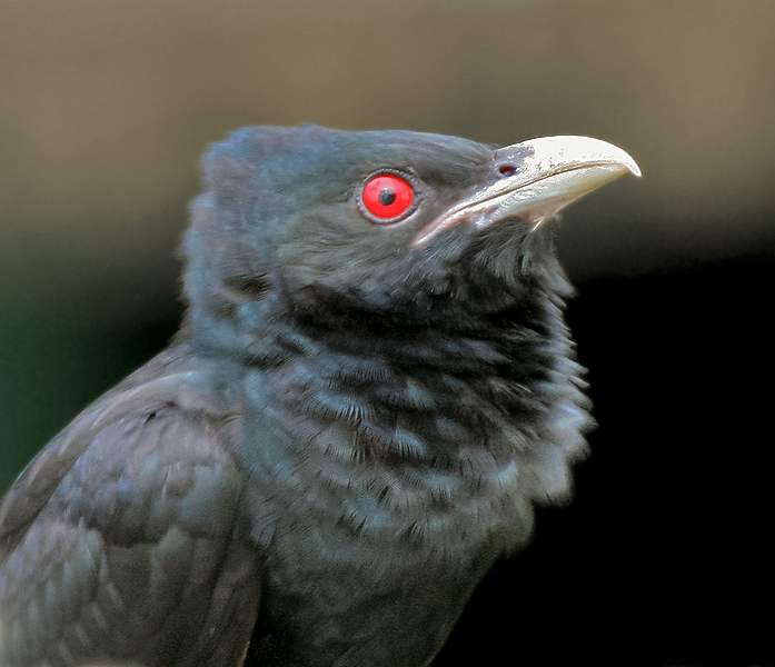 Asian Koel Eudynamys scolopaceus in Kolkata, West Bengal, India.